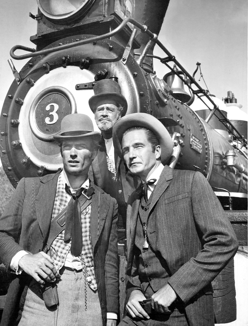 Photo of Clint Eastwood, Paul Brinegar and Eric Fleming from Rawhide.